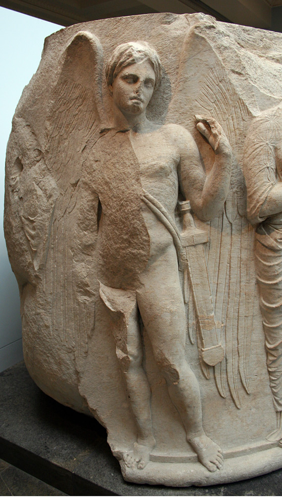 Winged youth with a sword, probably Thanatos, personification of death. Detail of a sculptured marble column drum from the Temple of Artemis at Ephesos, ca. 325-300 BC. Found at the south-west corner of the temple.